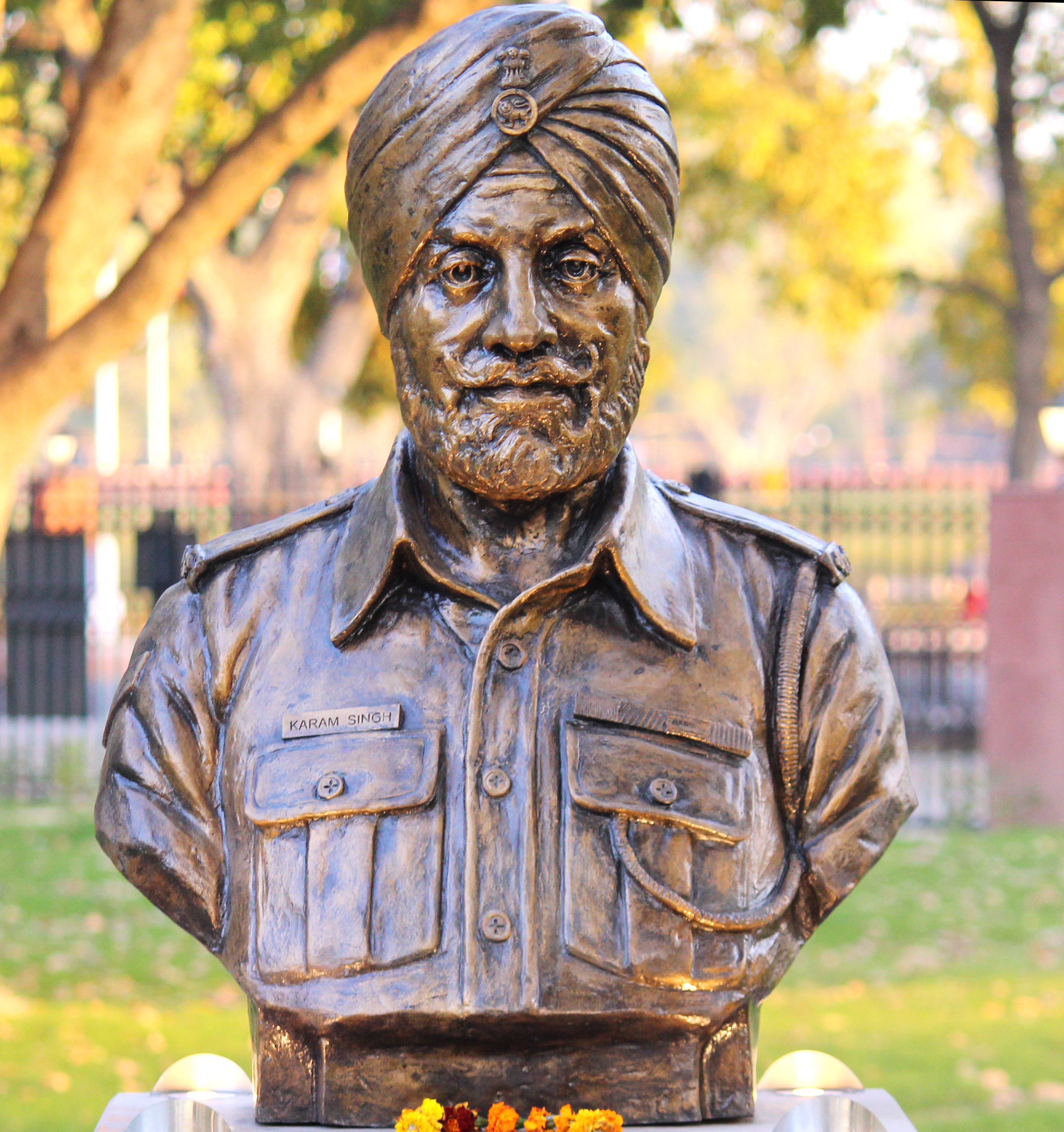 Lance Naik Karam Singh's statue at Param Yodha Sthal (section for Param Vir Chakra recipients), National War Memorial, New Delhi.